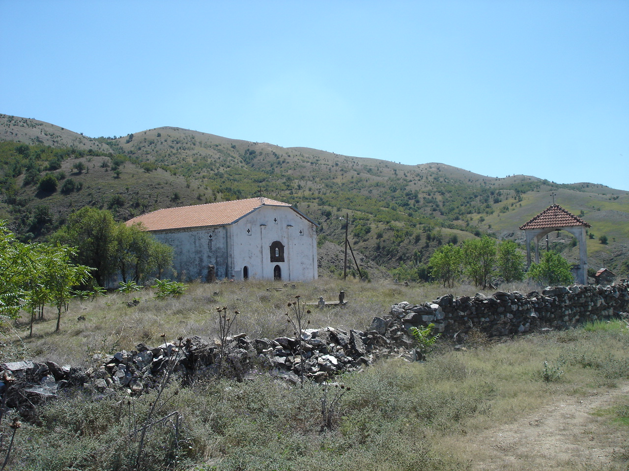 The church in village of Novachani, near Veles, Macedonia